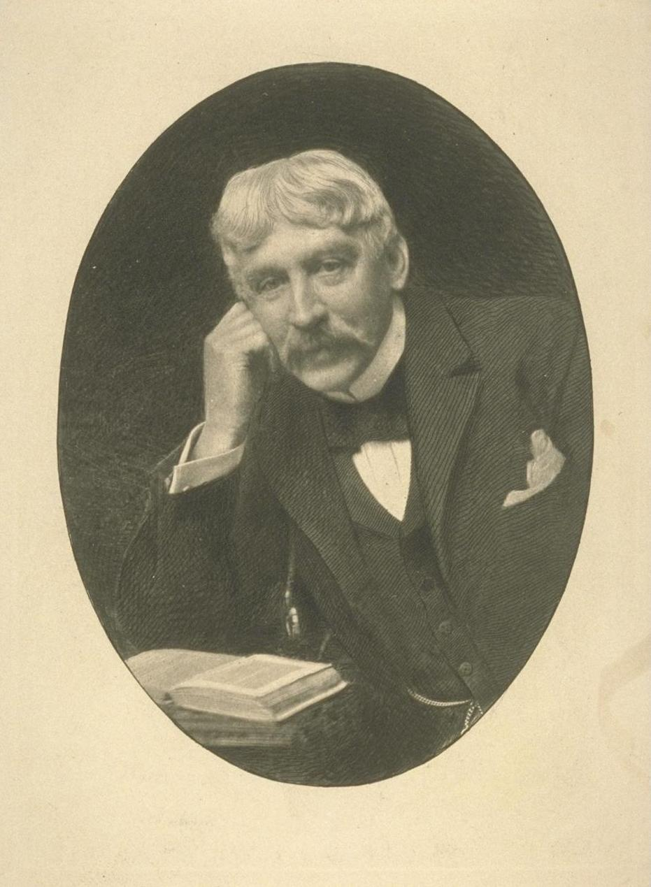 Bret Harte (1836-1902), American author